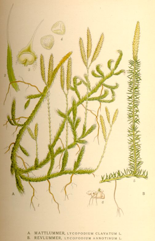 Lycopodium clavatum and Lycopodium annotinum